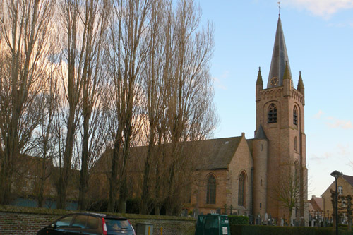 Church of Saint Nicolas in Keiem, Diksmuide, West-Flanders, Belgium.